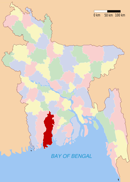 District locator map in red in Bangladesh